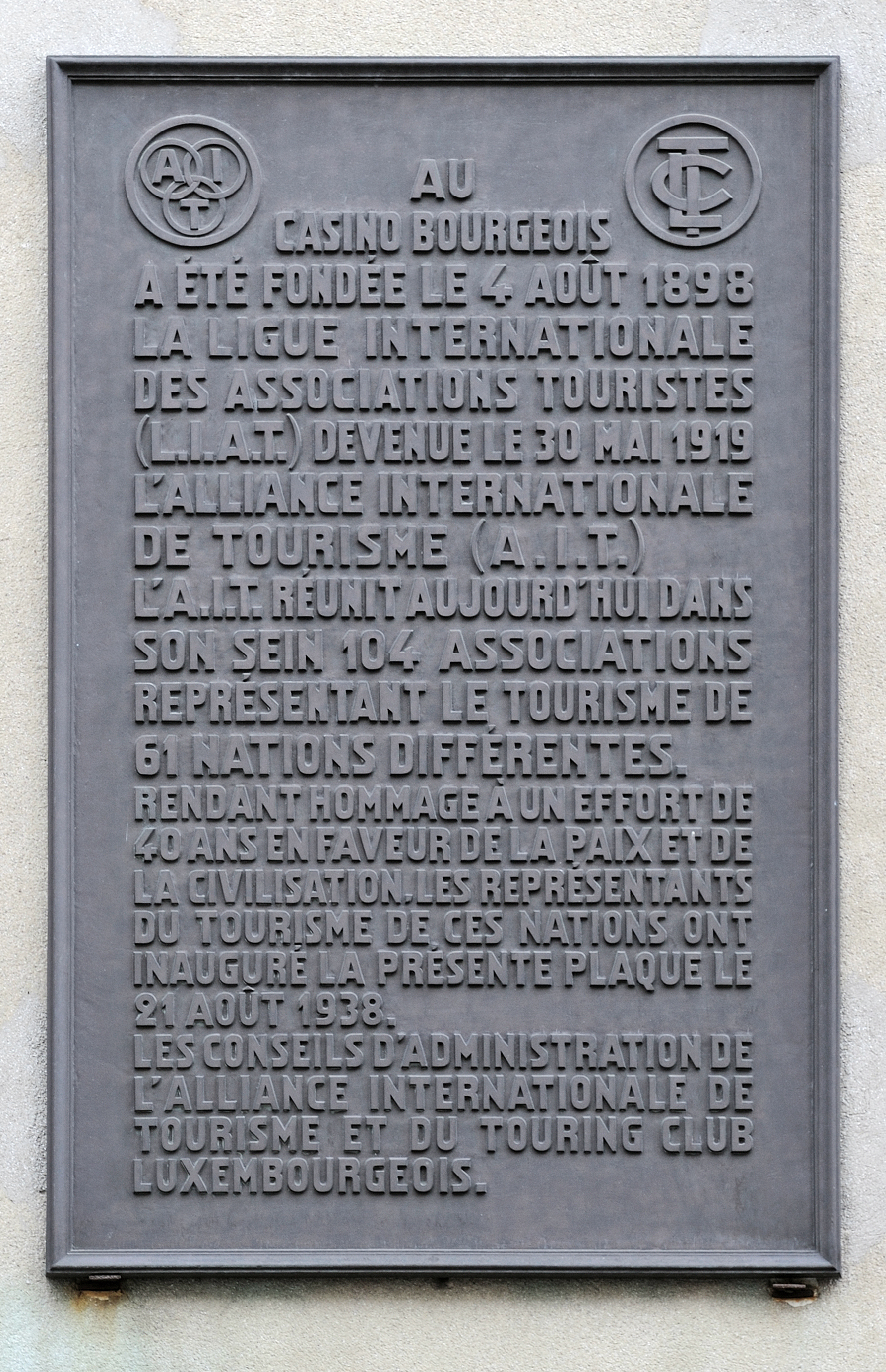 Casino Luxembourg - Forum d'art contemporain (former Casino bourgeois): plaque commemorating the foundation, in this buiding, of the AIT (Alliance internationale de tourisme) in 1898